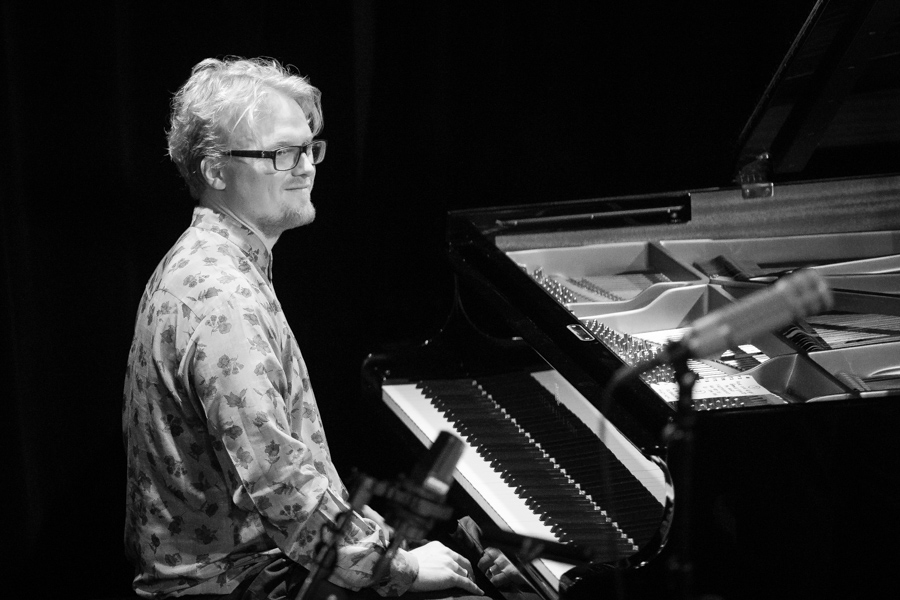 Kjetil Jerve in a concert with Baker Hansen at Victoria Teater. The concert took place on 25. October 2019 in Oslo. Lineup:Sigurd Rotvik Tunestveit (vocal)John Pål Inderberg (baritone saxophone)Thomas Husmo Litleskare (trumpet)Kjetil Jerve (piano)Stian Andreas Egeland Andersen (double bass)Tore Flatjord (drums)